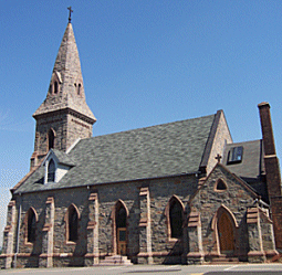 Chapel of Madonna Church in Fort Lee, New Jersey